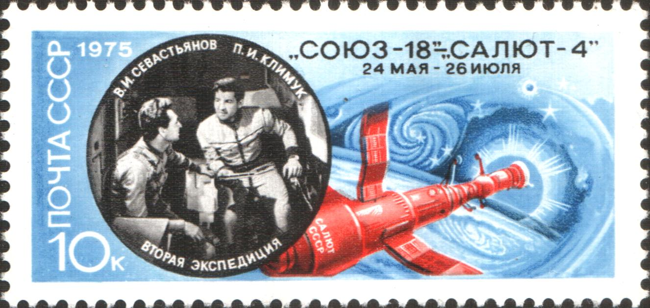 USSR stamp, "Soyuz-18", 1975, 10k.